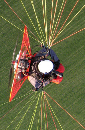 Paramotor aerial photographer